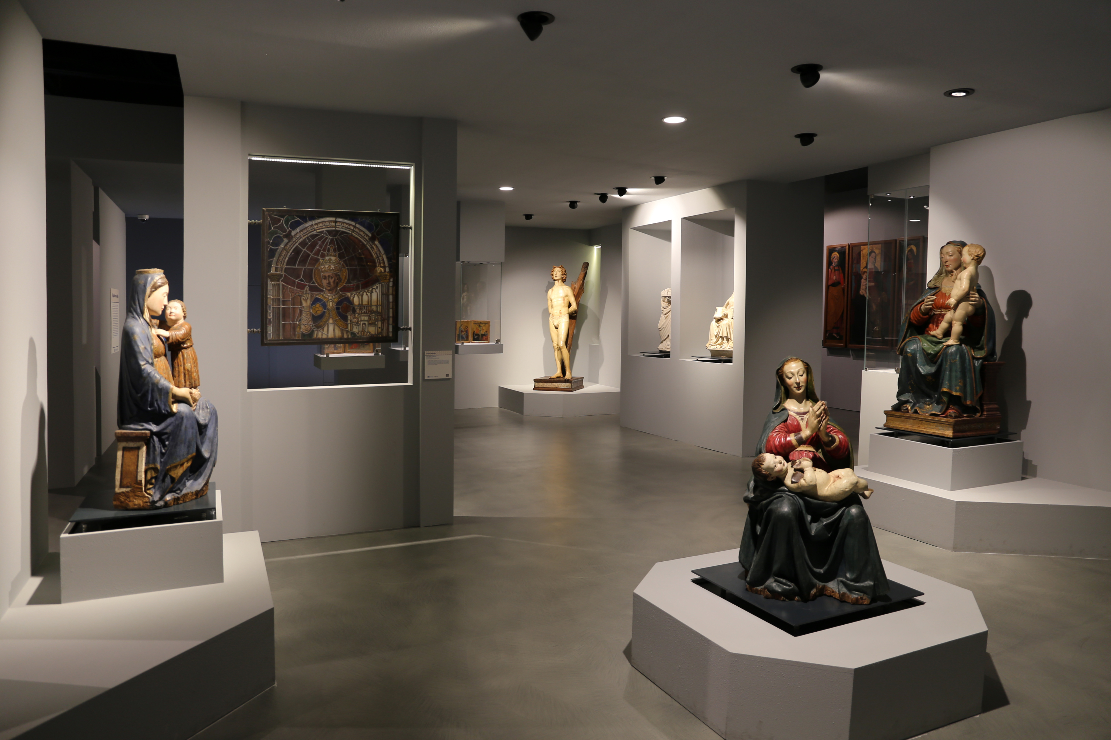 Museo nazionale d'Abruzzo